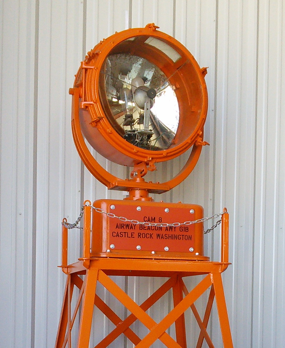 Beacon 61B from the Transcontinental Airway System route "CAM-8", originally installed near Castle Rock, Washington.